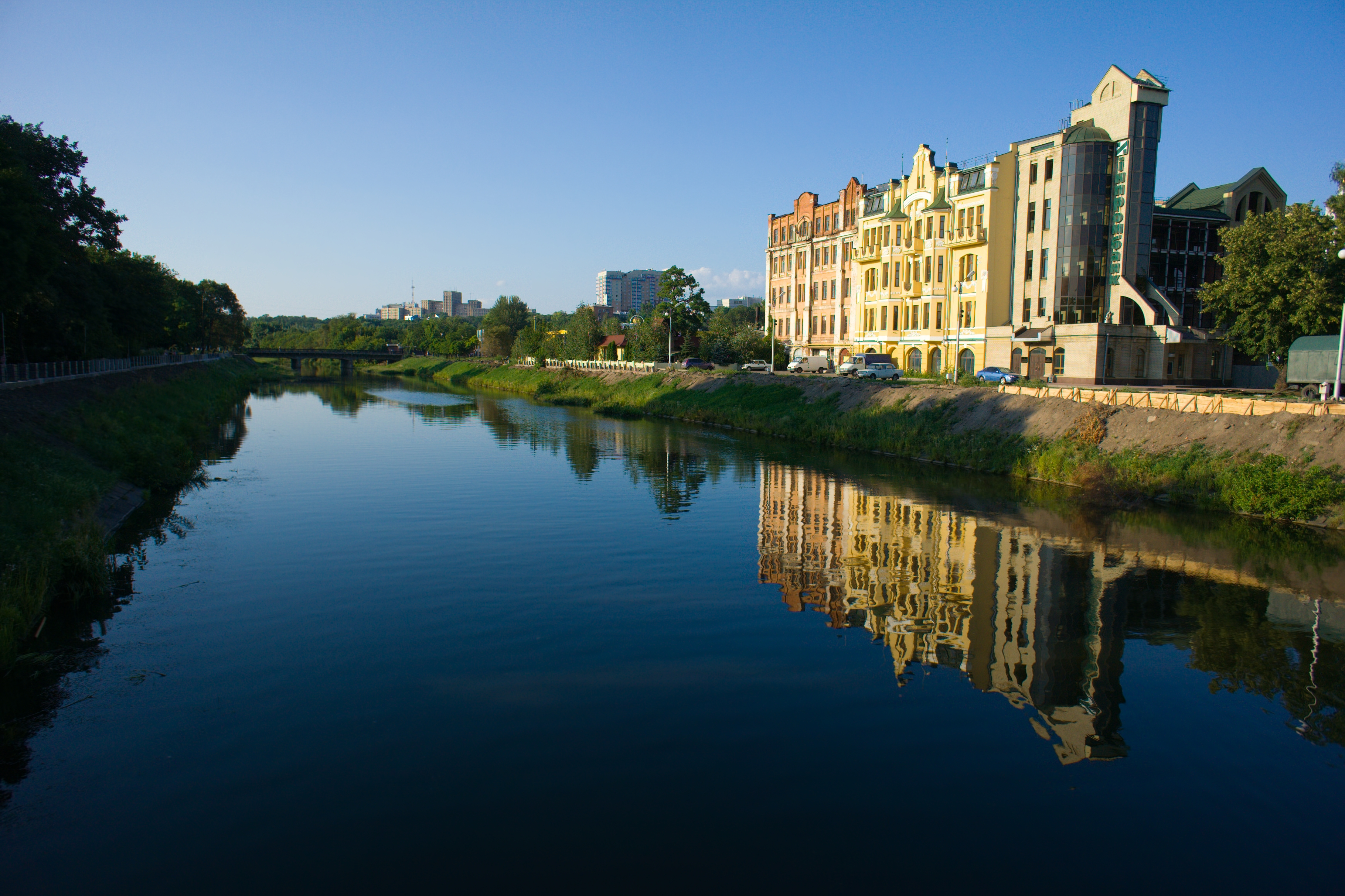 Lopan river in Harkov, Ukraine.